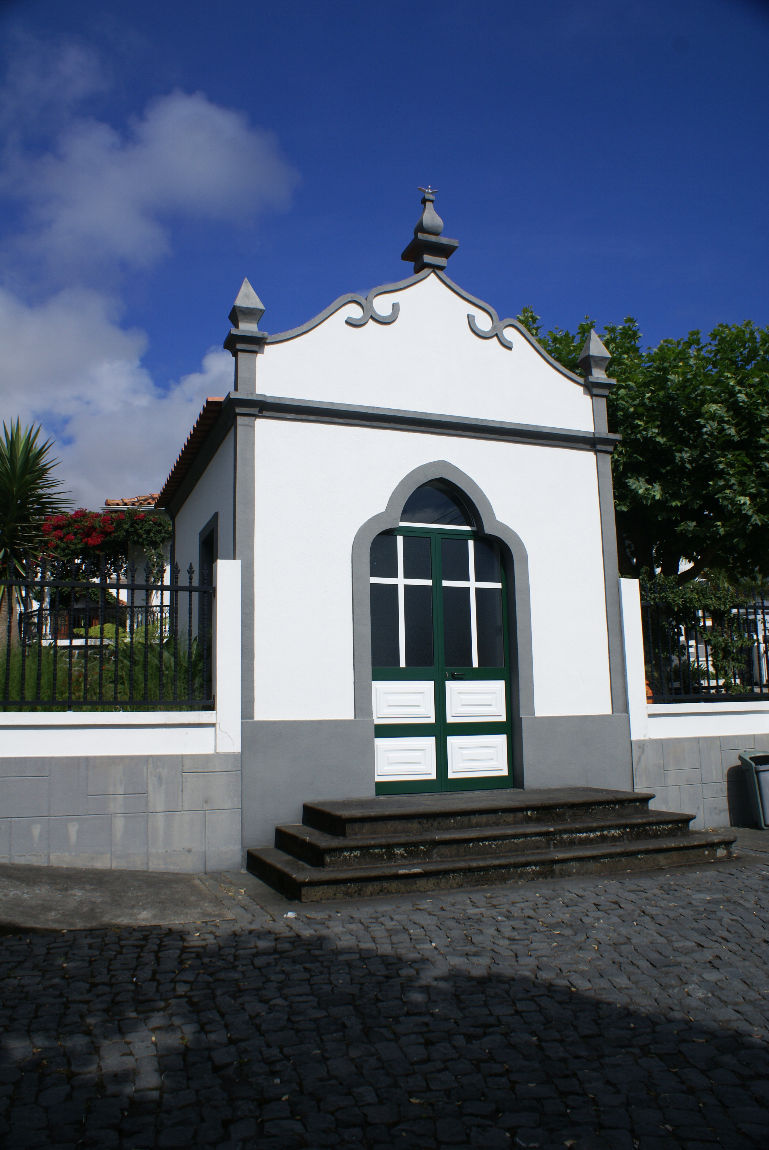 Império do Espírito Santo da Candelária, concelho da Madalena do Pico, ilha do Pico, Açores, Portugal